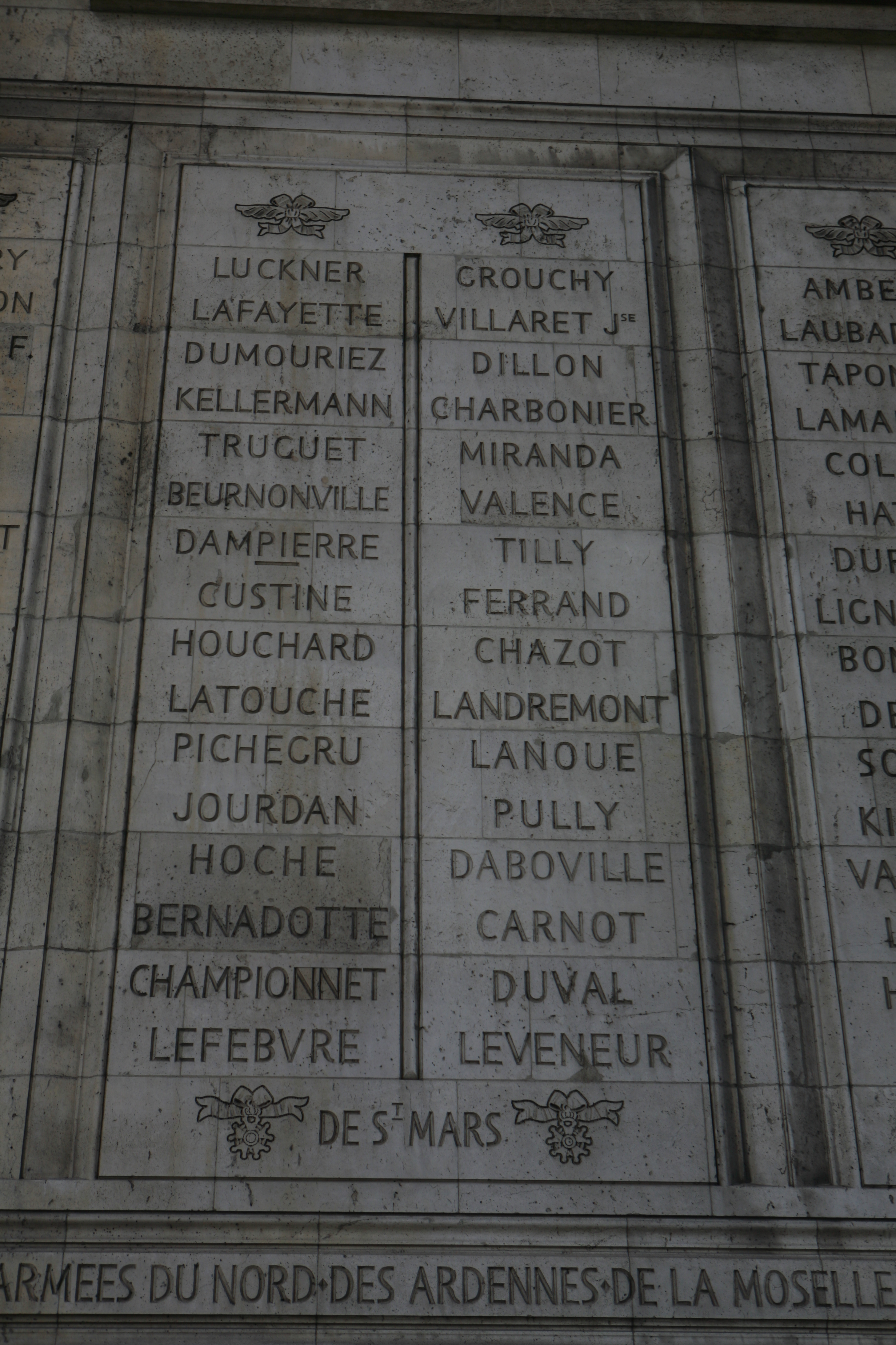 Details of the Arc de Triomphe. Northern pillar, Columns 3,4